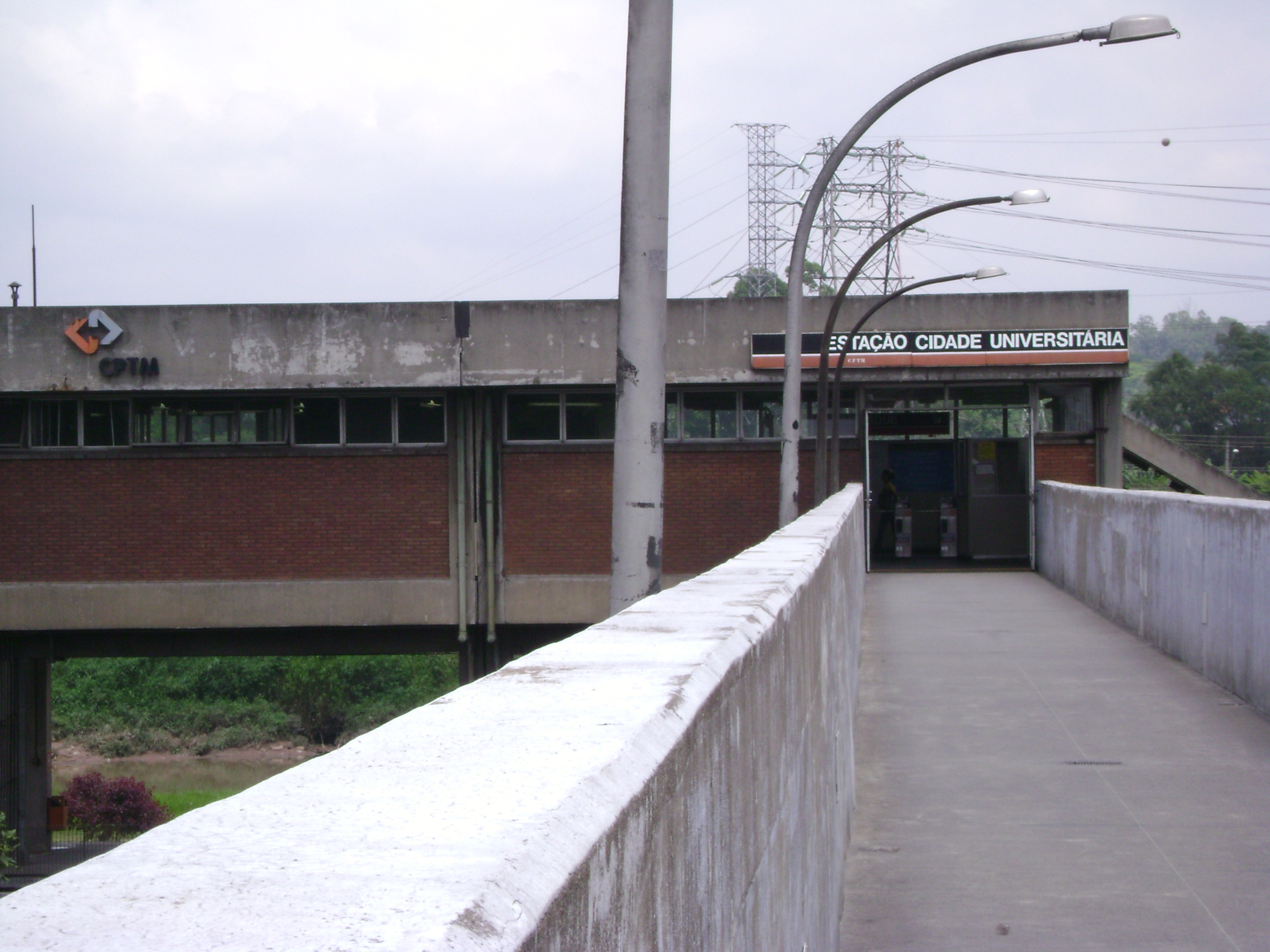 Photo of USP Station